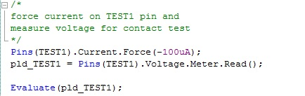 force_curr_meas_V